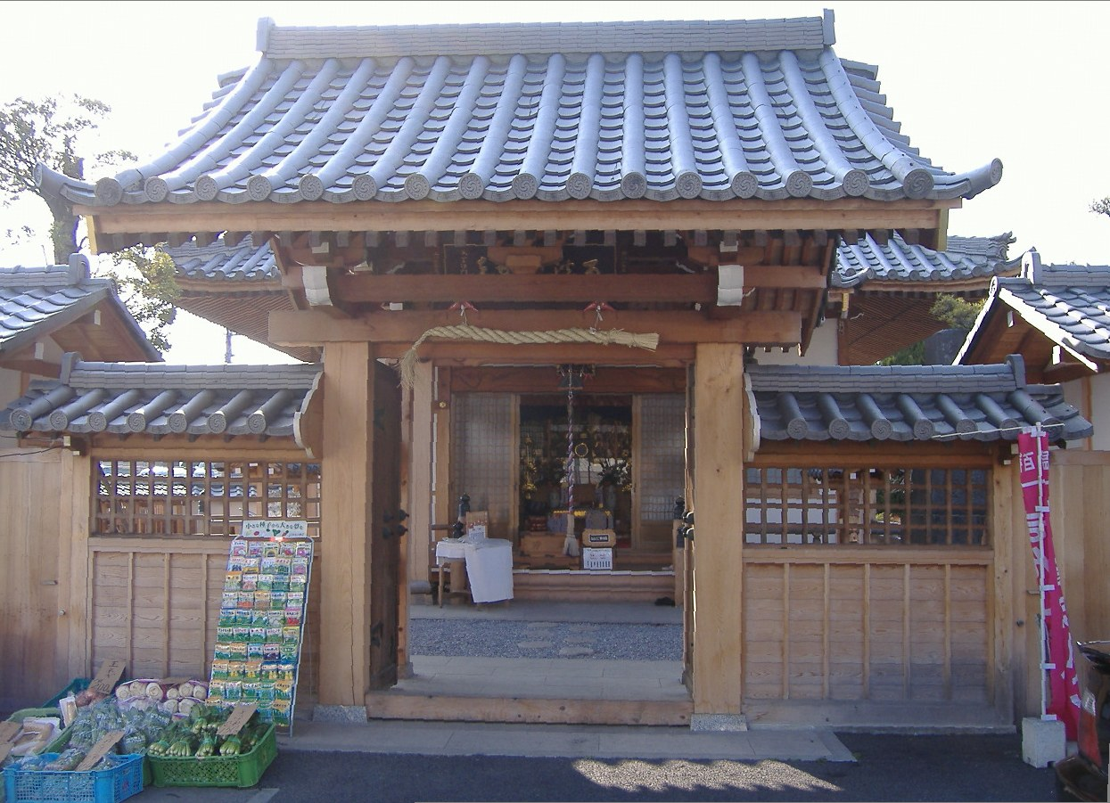 Hyakkannon-onsen (Washimiya-town,Saitama-pref,Japan)